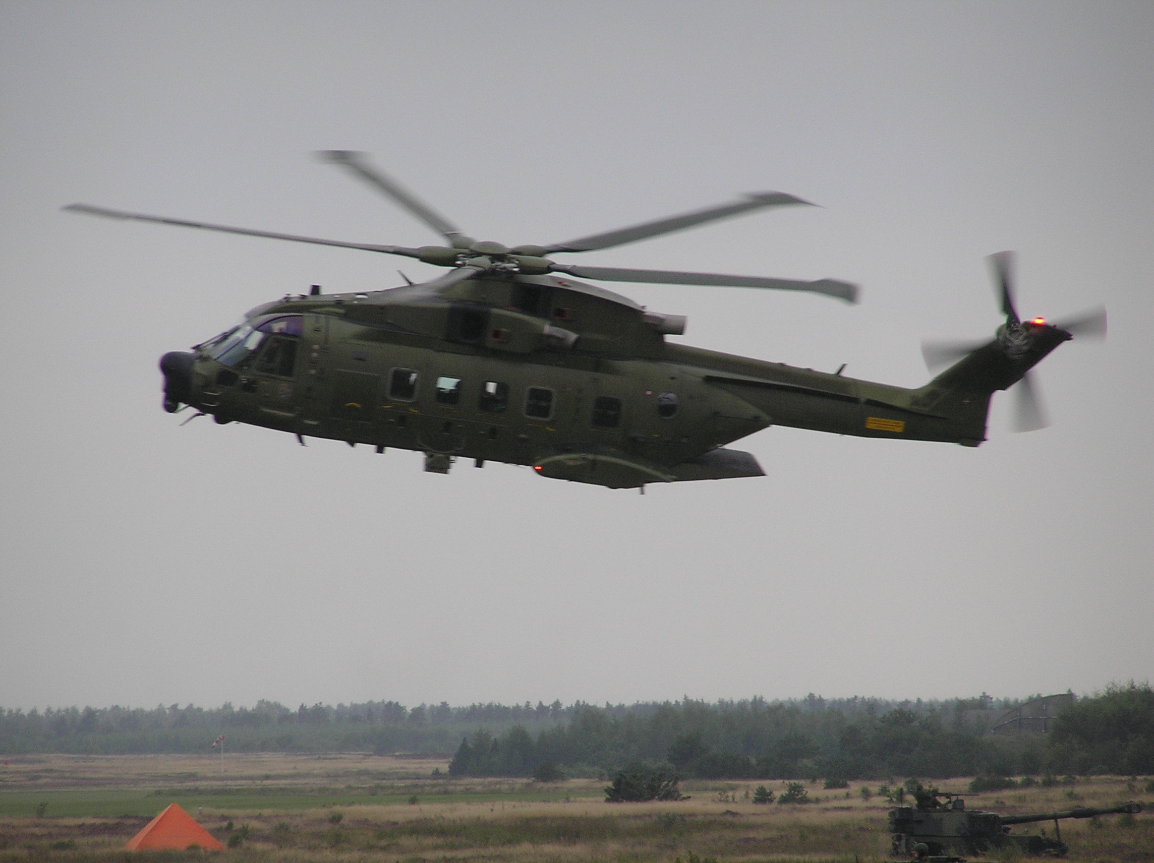 Danish air force EH-101 at public display SIKU 2007